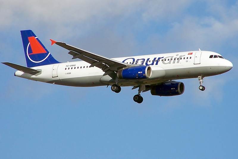 Onur Air A320 TC-OBG landing at Glasgow 13/6/11